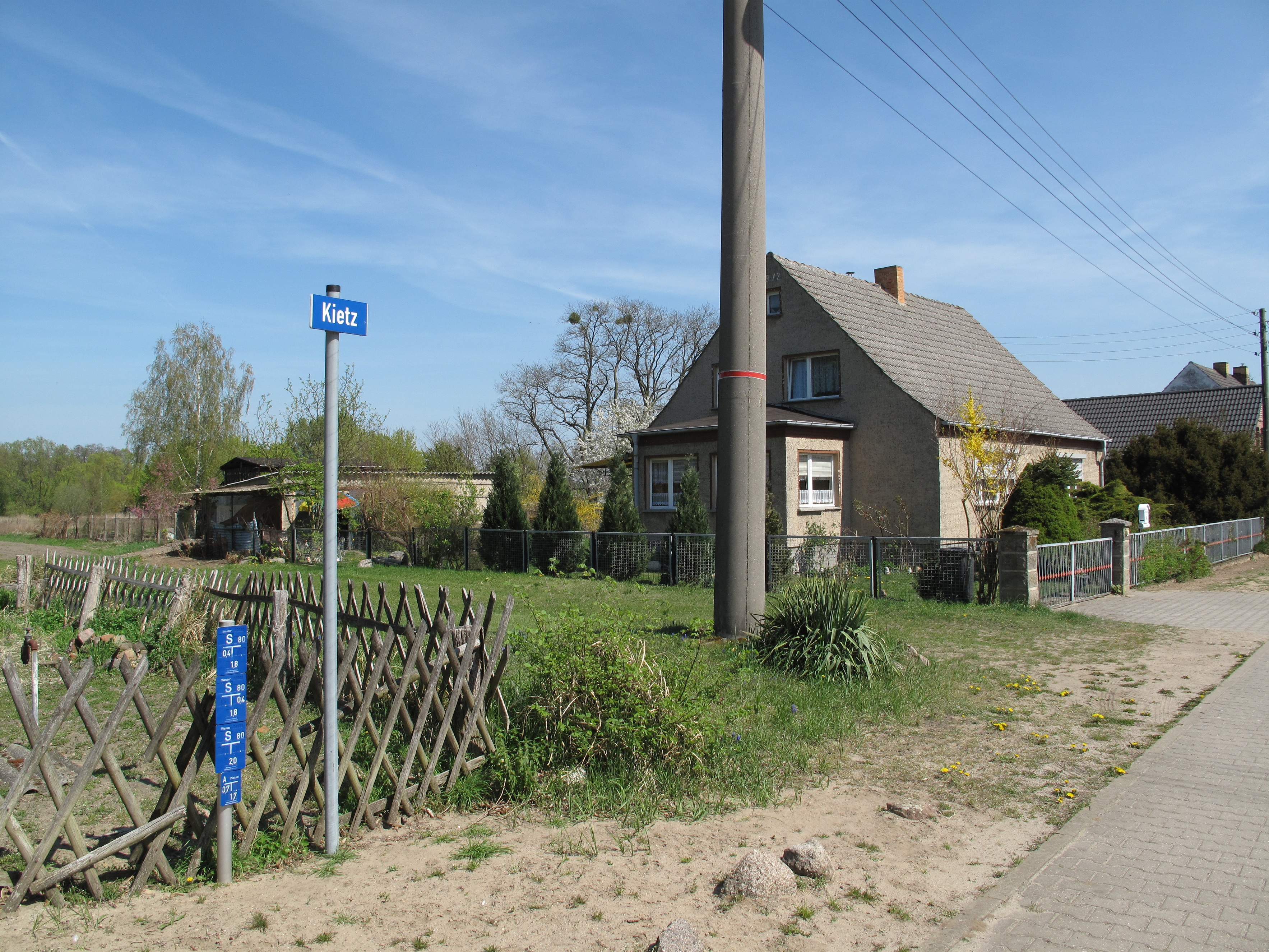 Historical Kietz in Altfriedland. The village Altfriedland is a part of the municipality Neuhardenberg in the District Märkisch-Oderland, Brandenburg, Germany.